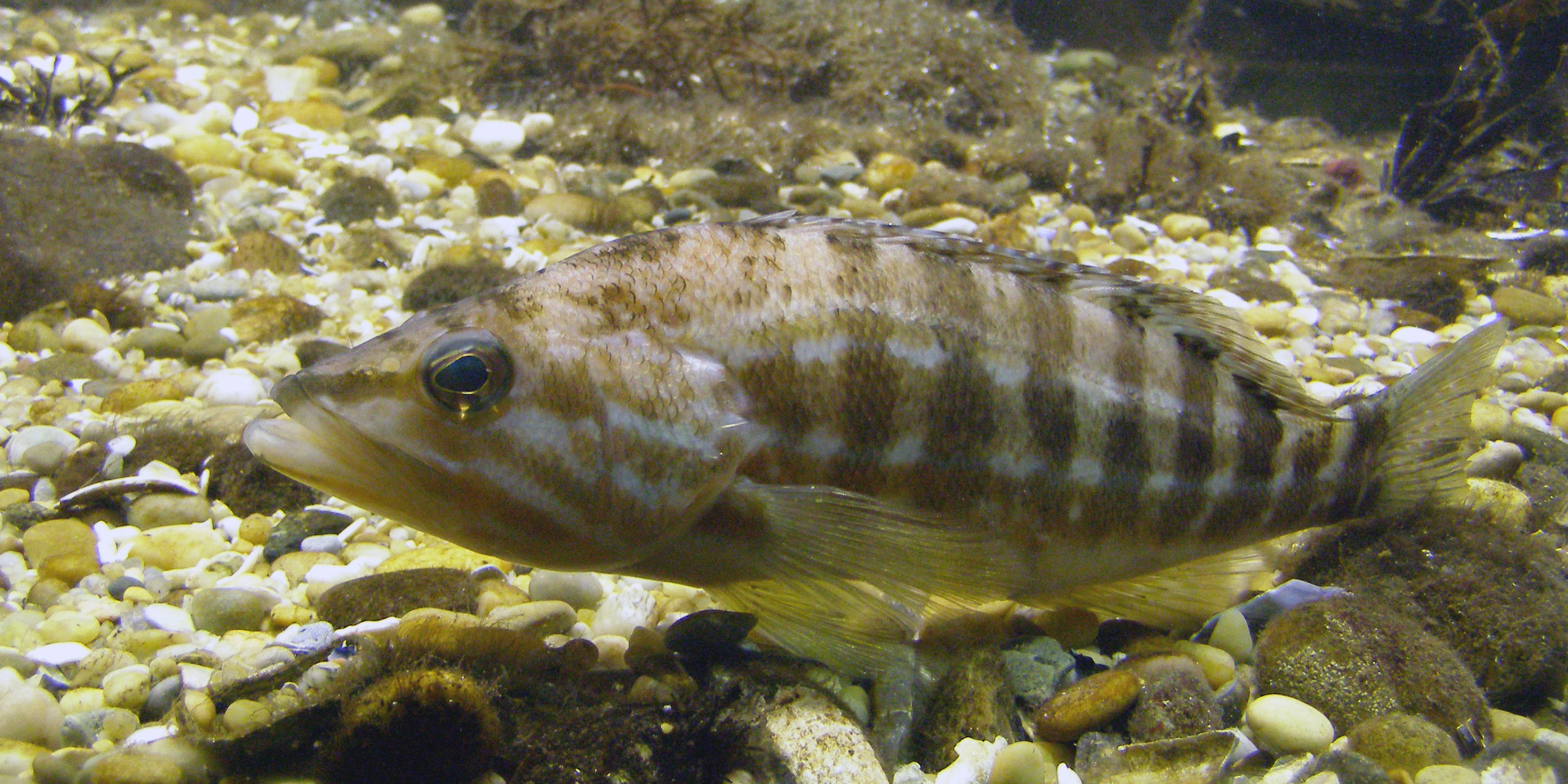 Comber. Captive specimen. Estação Litoral da Aguda, Arcozelo, Vila Nova de Gaia, Portugal.